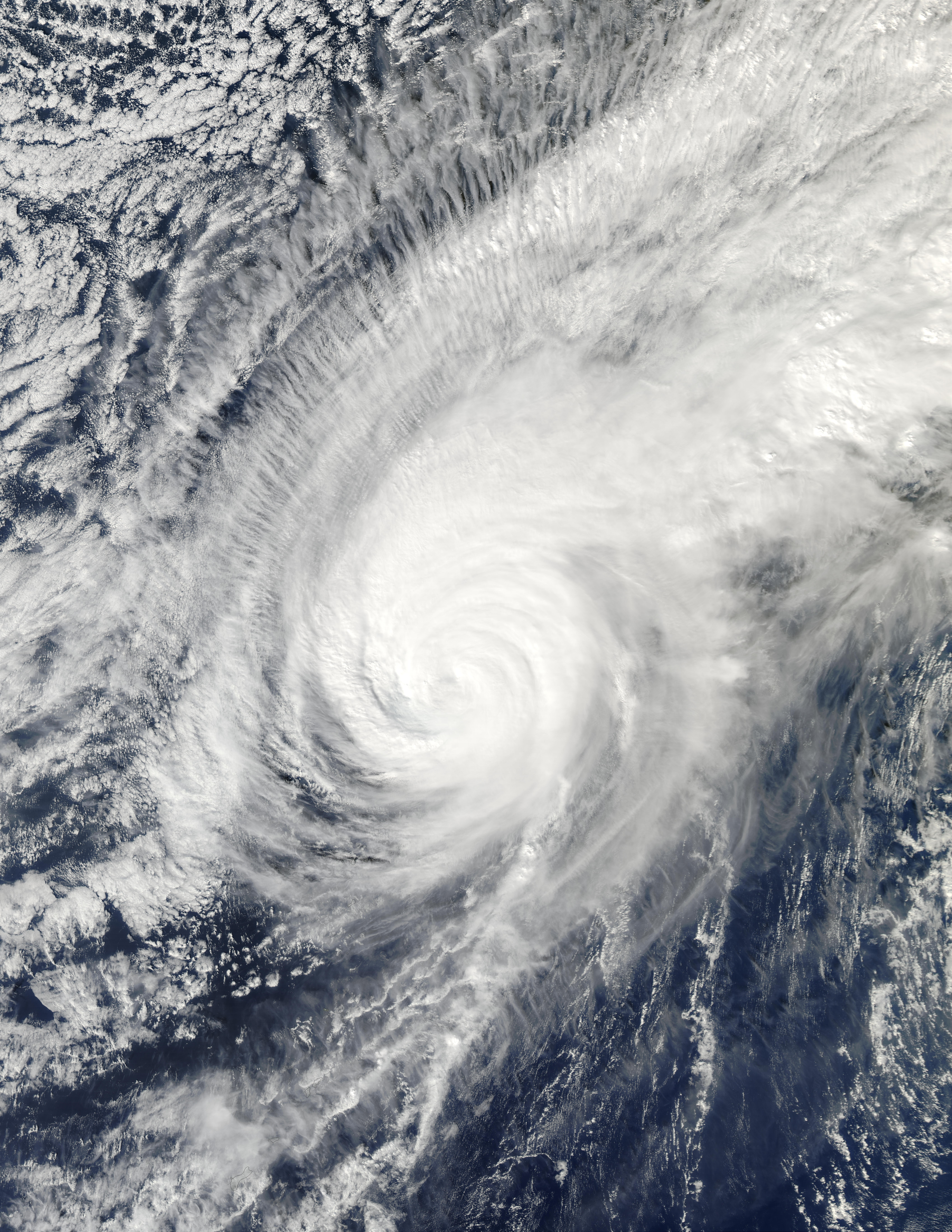 At the time this image was acquired on December 10, 2002, Super Typhoon Pongsona was descending from its peak strength—Category 4— with winds of 120 knots (1 knot = 1.15 mph) to Category 3, with winds around 100 knots. Pongsona had moved northeast, out into the open Pacific. Pongsona had dissipated four times before reaching Typhoon level, and gained a level approximately every day, up to Category 4. However, the descent was quicker. By late on the 9th, Pongsona began losing power, and by the 11th had dropped to the lowest level, Category 1, with winds of 75 knots. After this, it dissipated for good.